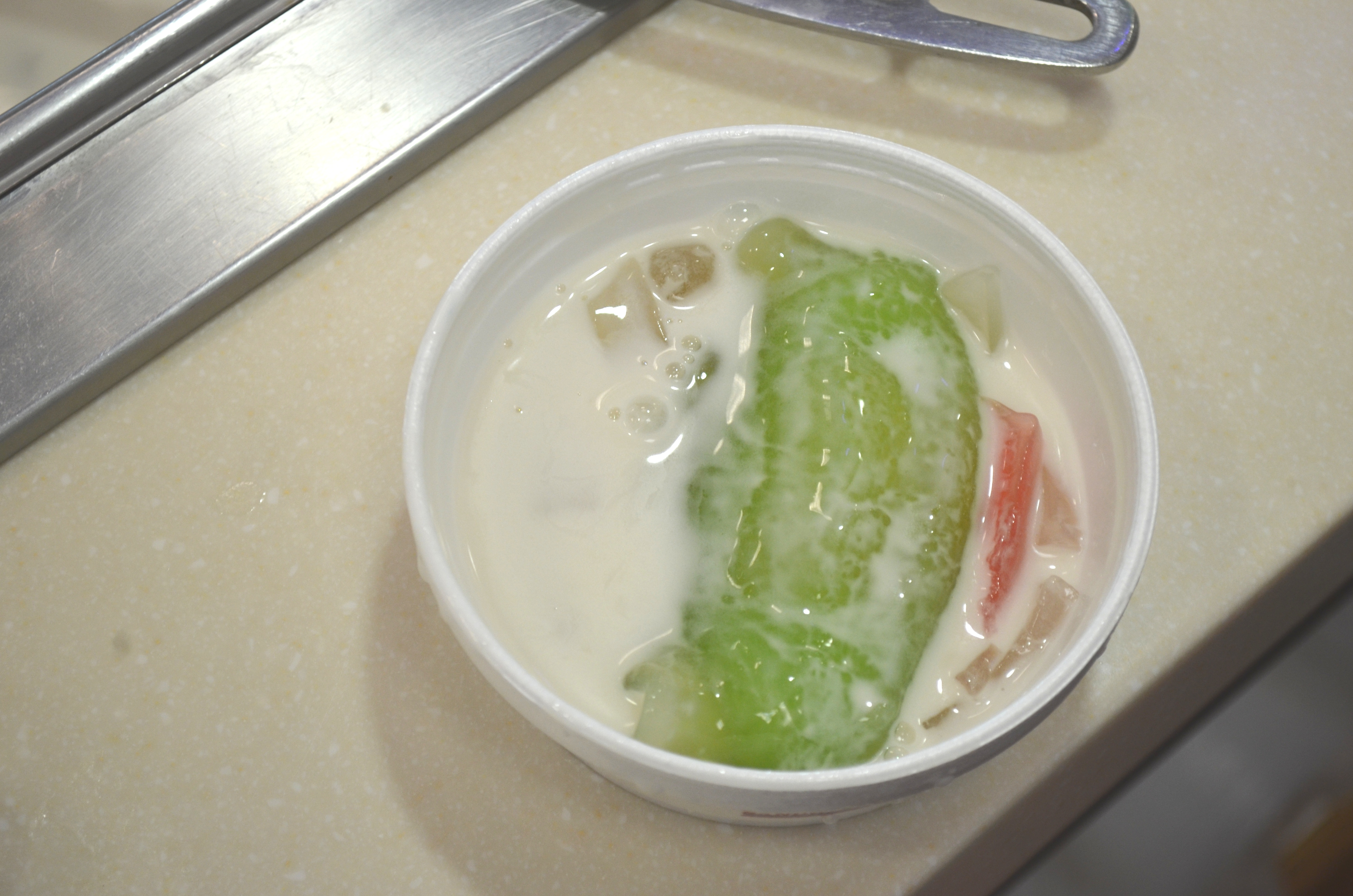 Bowl of Vietnamese dessert. Green bean stuffed in tapioca skin dumpling with a coconut milk soup base.